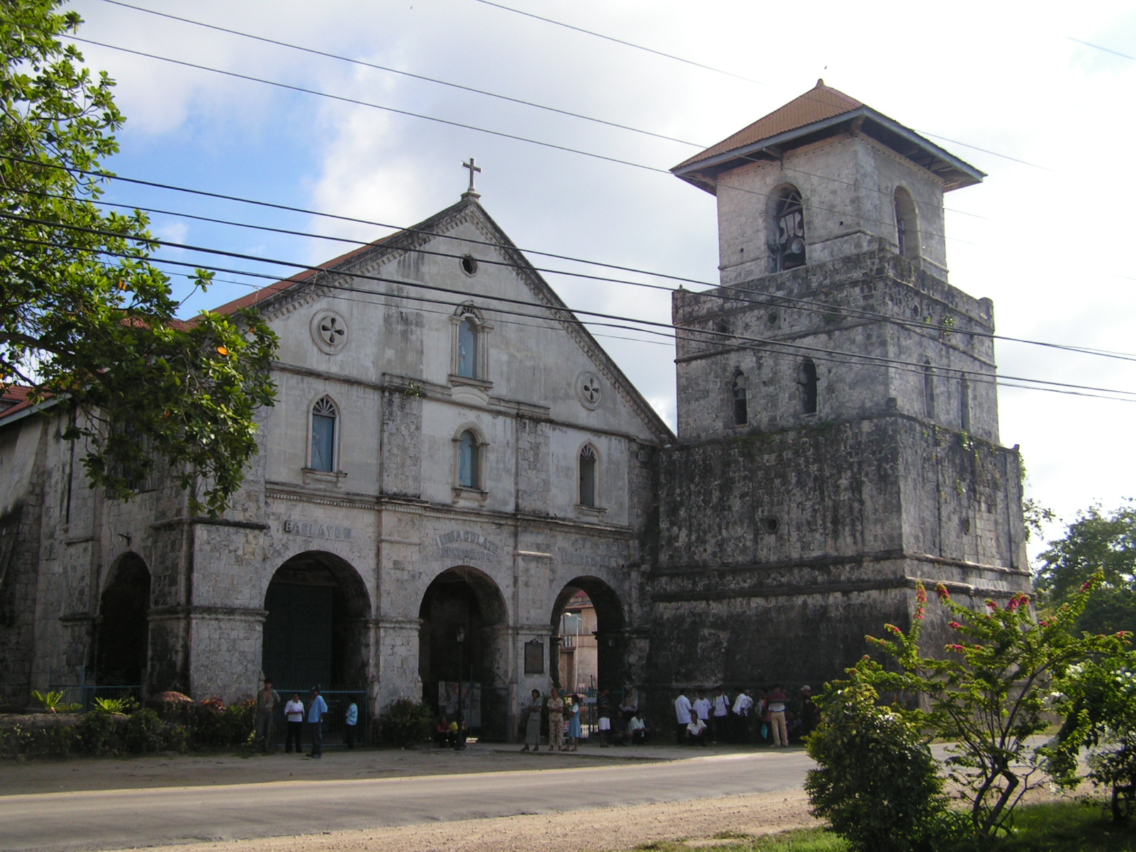 self-taken